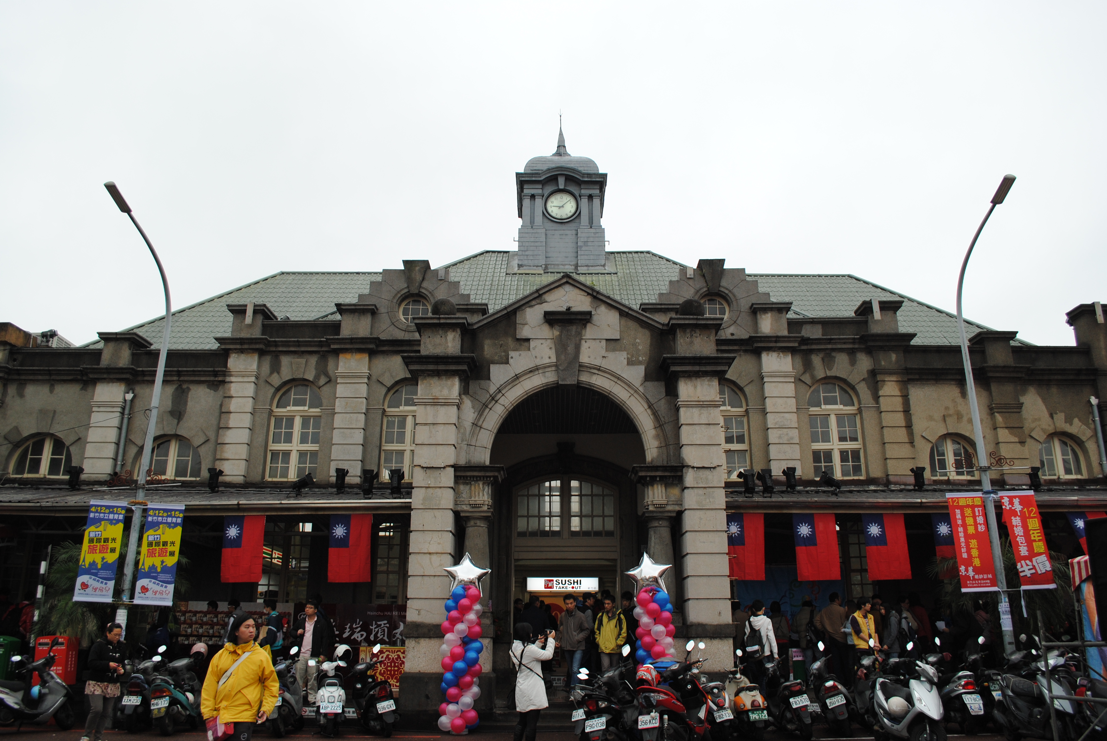 Hsin Chu TRA Station中文（台灣）: 新竹火車站，站體建築啟用100周年紀念